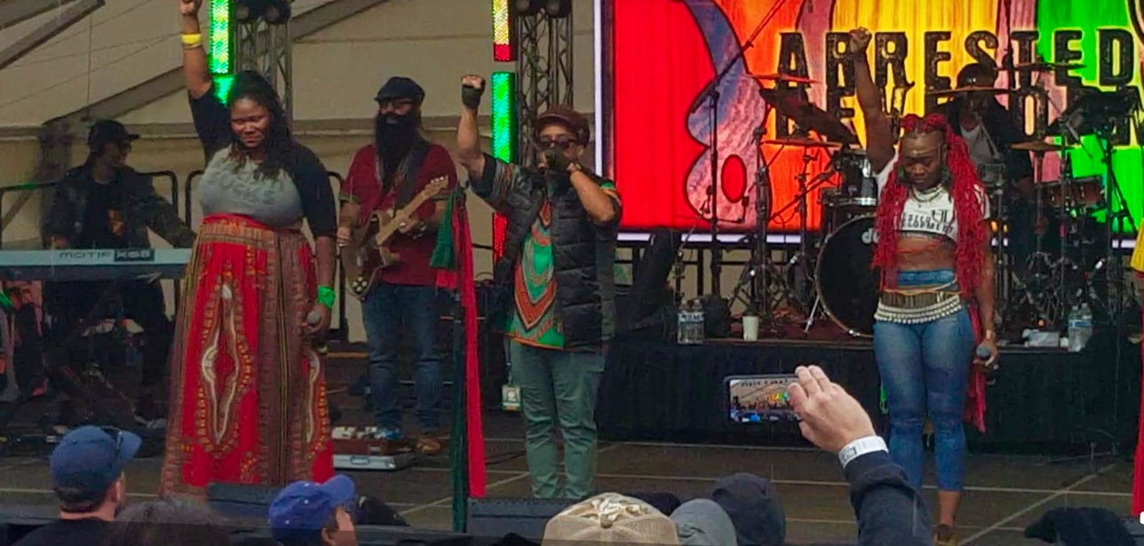 Arrested Develpment onstage at the Alaska Cannabis Cup, August 11 2018